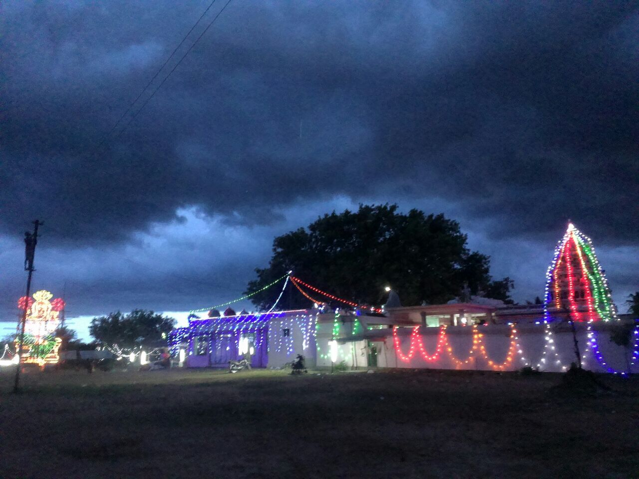 Mariaman temple in kalathur